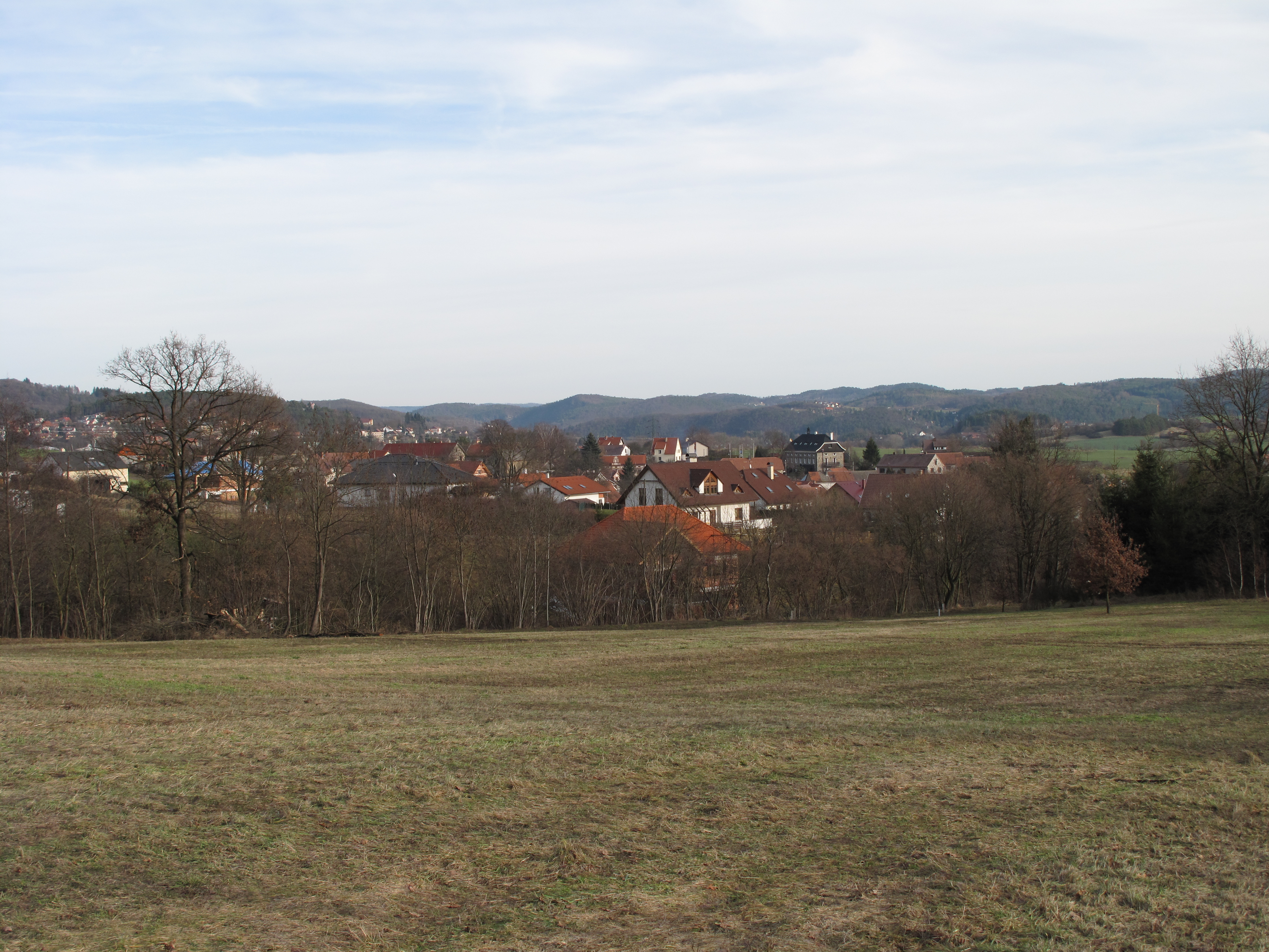 Buš village as seen from the west, Prague-West District, Czech Republic.